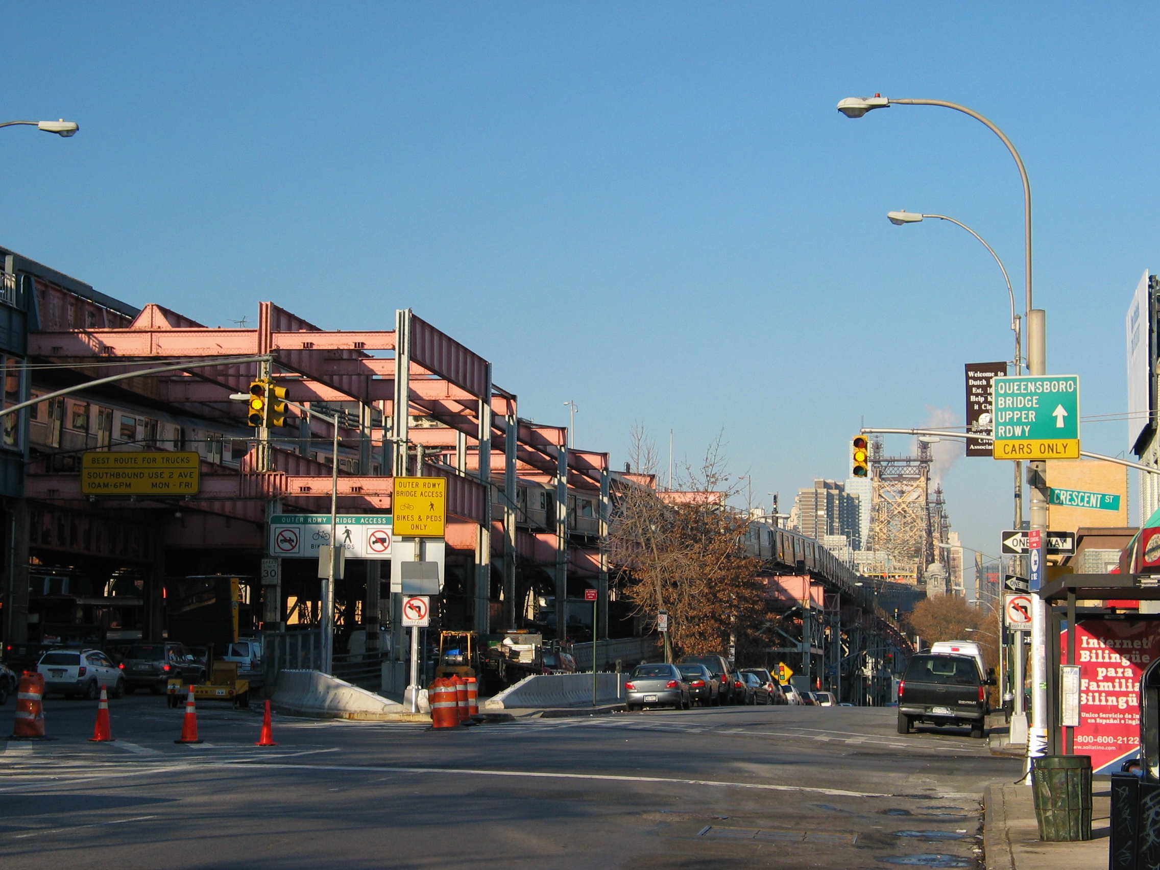 Outside Queensboro Plaza station. Queensboro Bridge visible in the background.